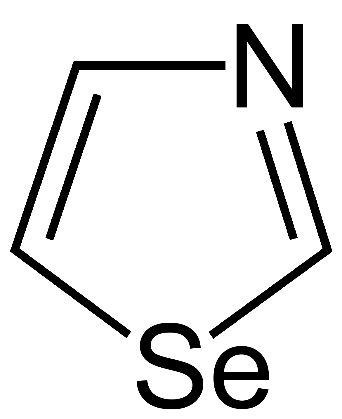 Selenazole_Structural_Formulae